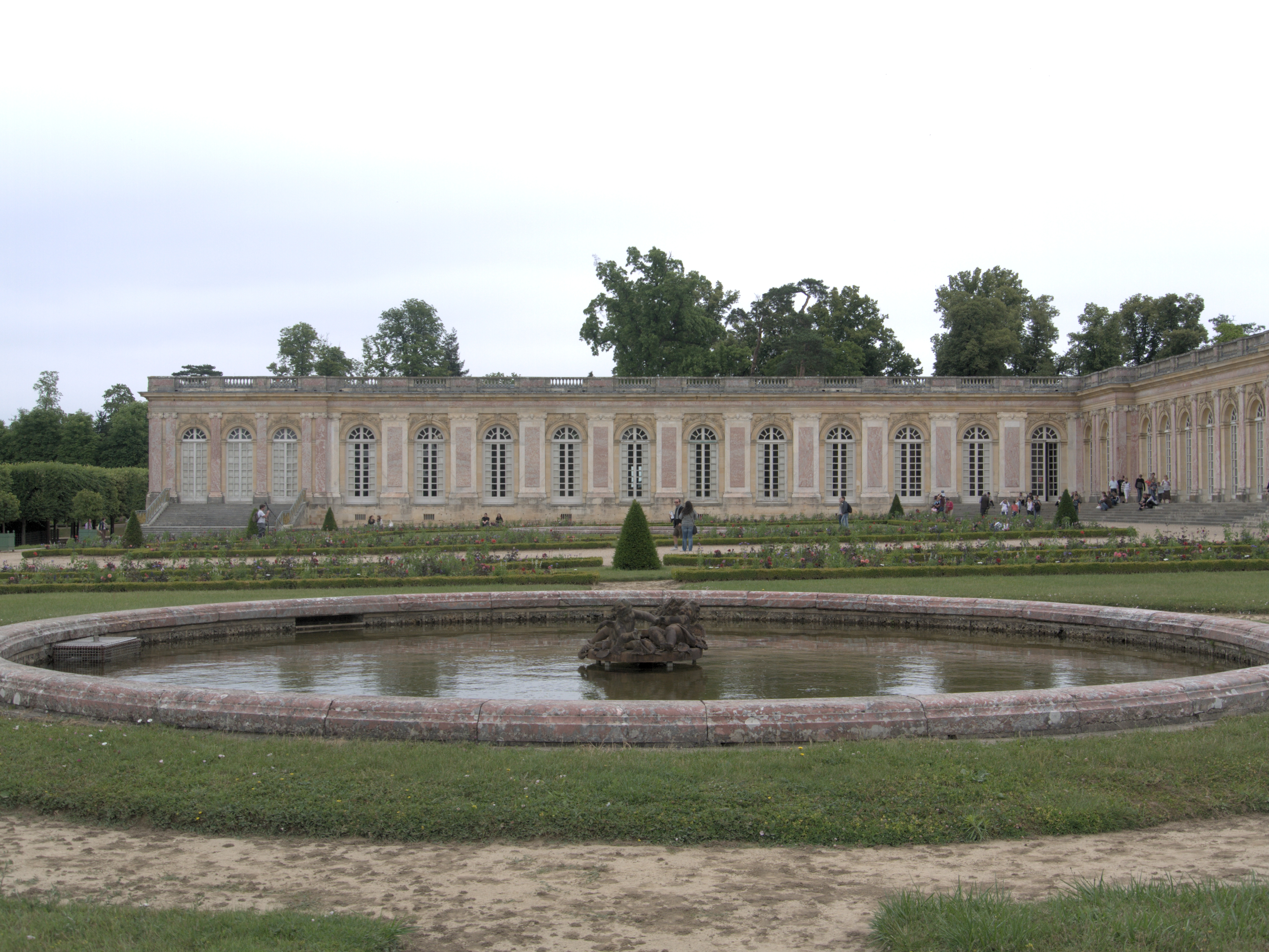 Photograph taken at the Park of the 'Château de Versailles' in France.